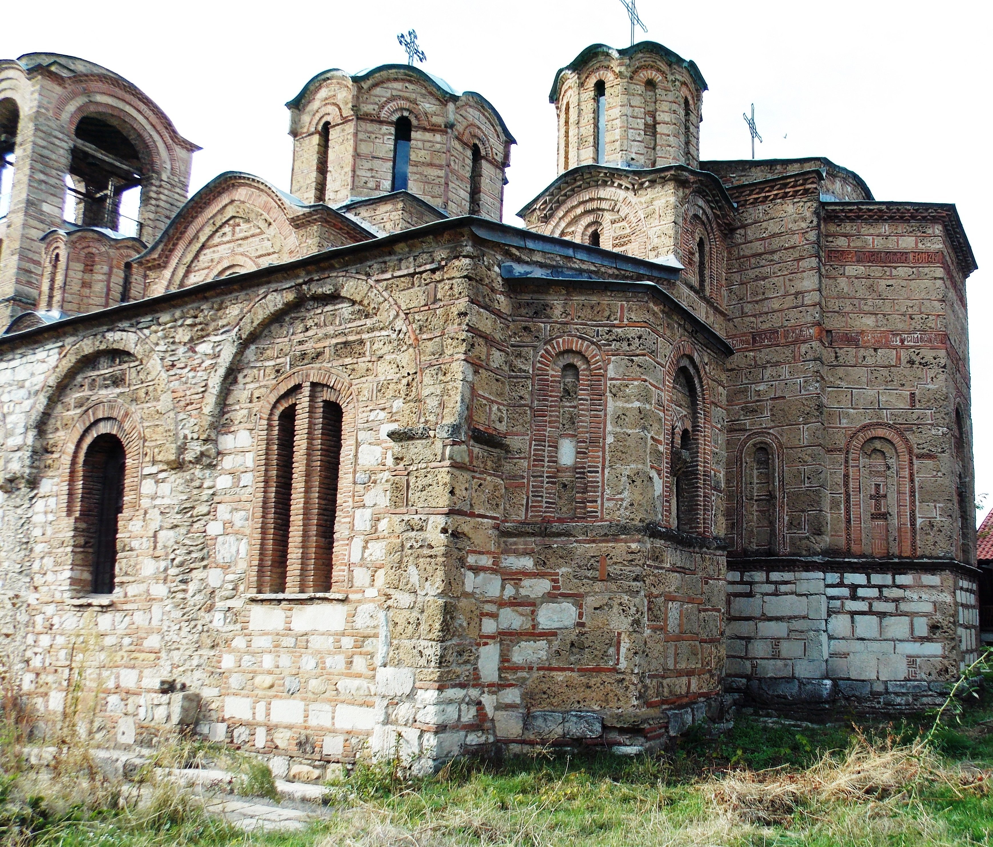 Serbian Orthodox Church of the Holy Mother of God (Bogorodica Ljeviška) in Prizren (14th Century)